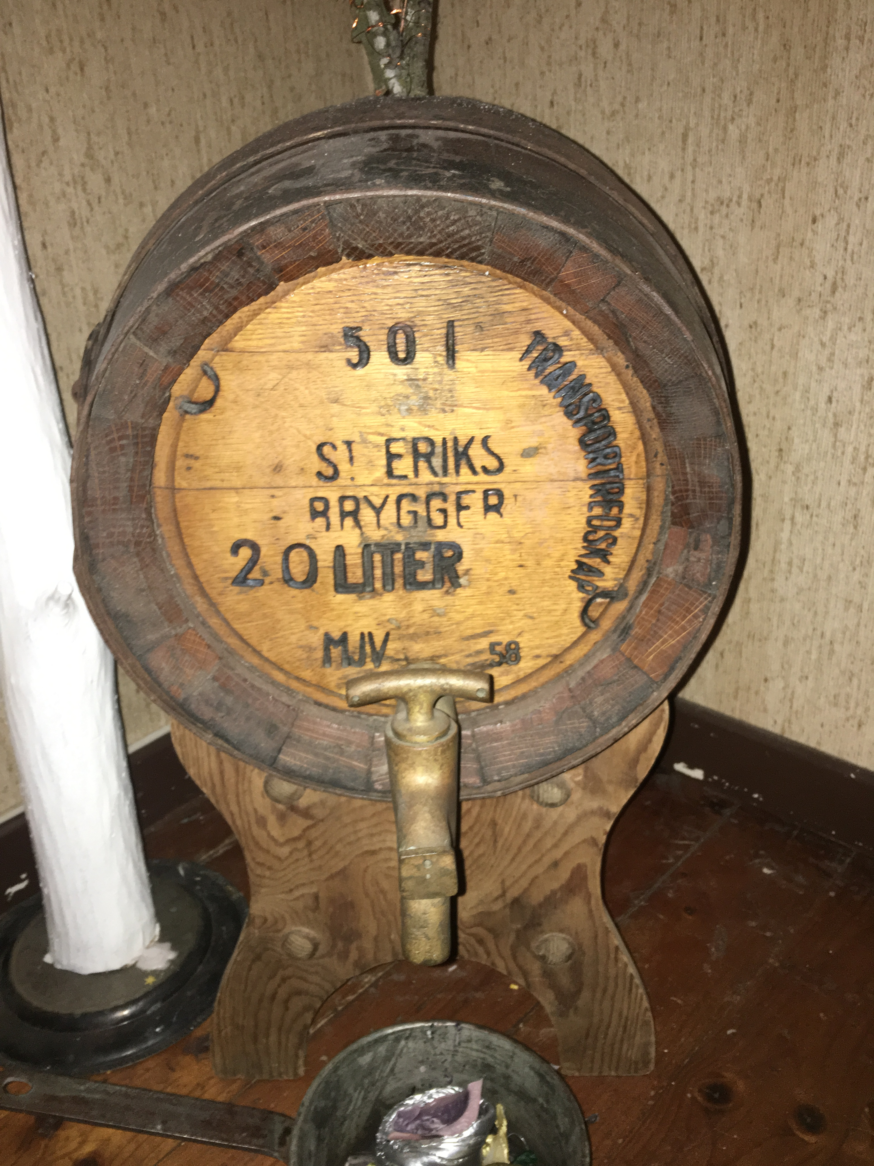 Beer barrel from St Eriks brewery in Stockholm Sweden.